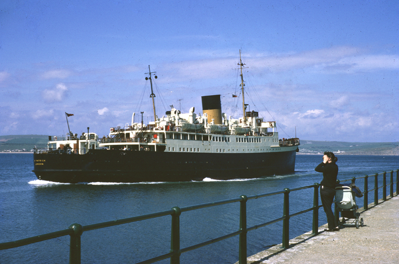 Ferry St Patrick at Weymouth